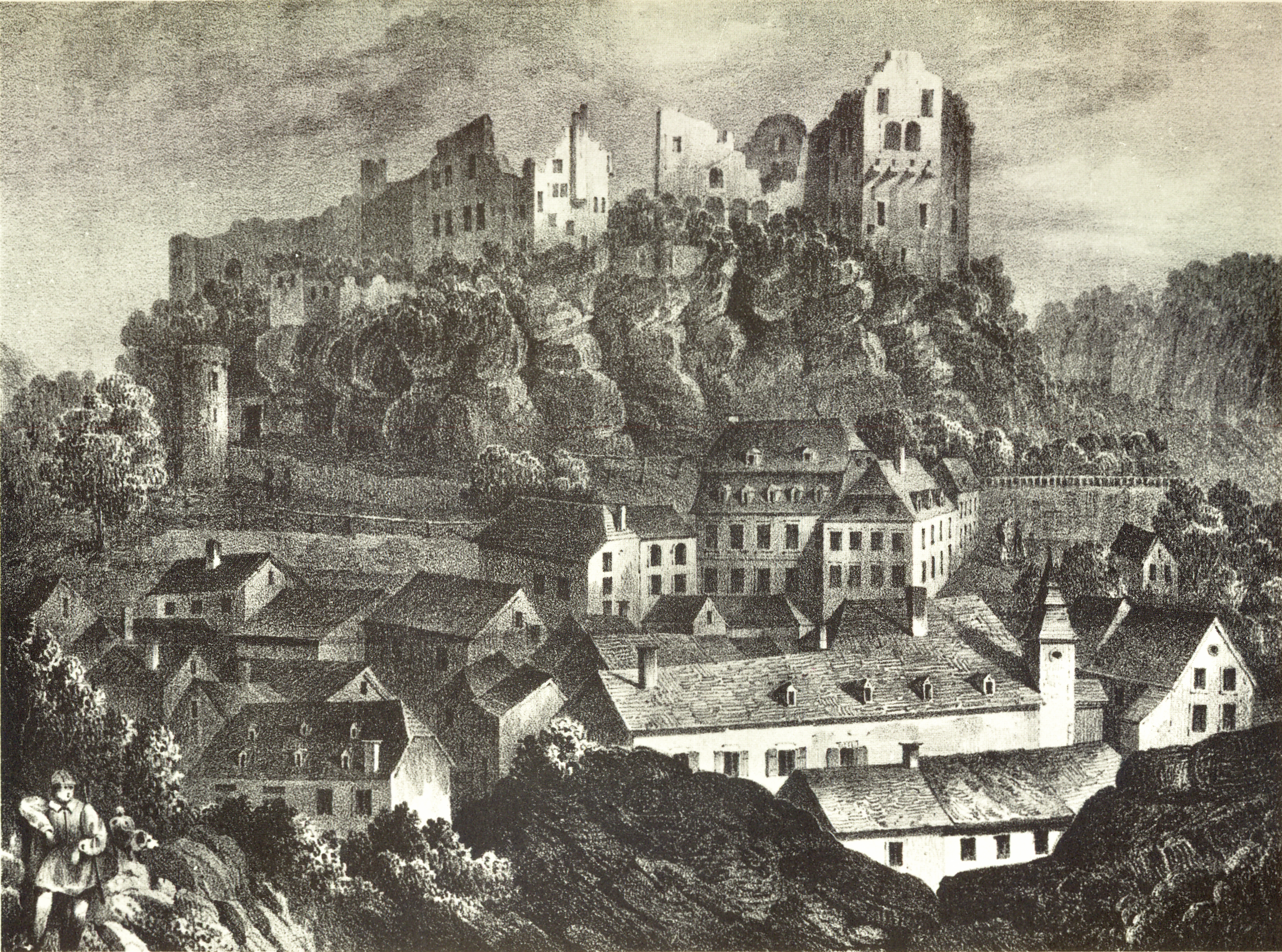 Vue on the village of Larochette with castle, Luxembourg. Drawing.